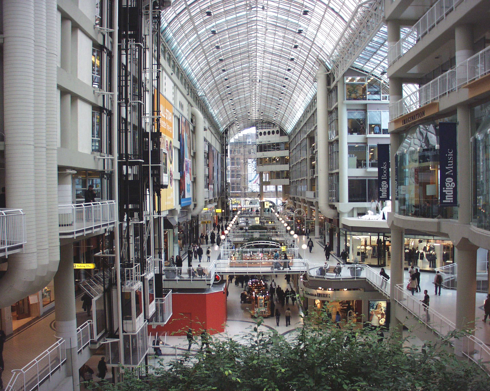 Toronto Eaton Centre. Interior, looking south. Taken from the website which states “There are no usage restrictions for this photo.”